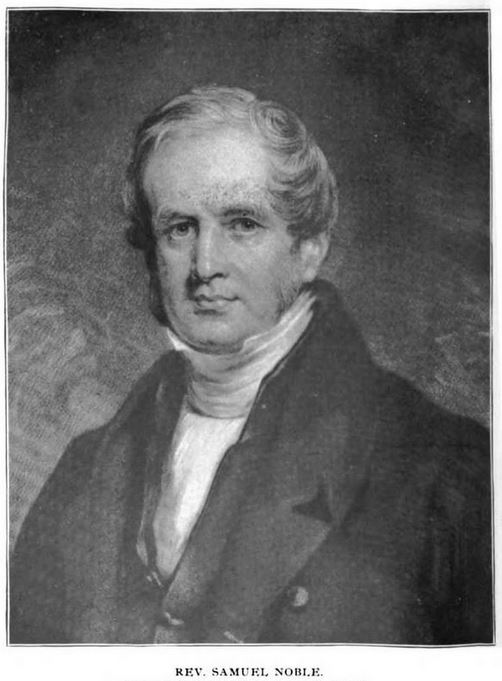 This is a picture of he Rev Samuel Noble, printed in the book Annals of the New Church, published in 1904, and copied there from a portrait by R B Faulkner